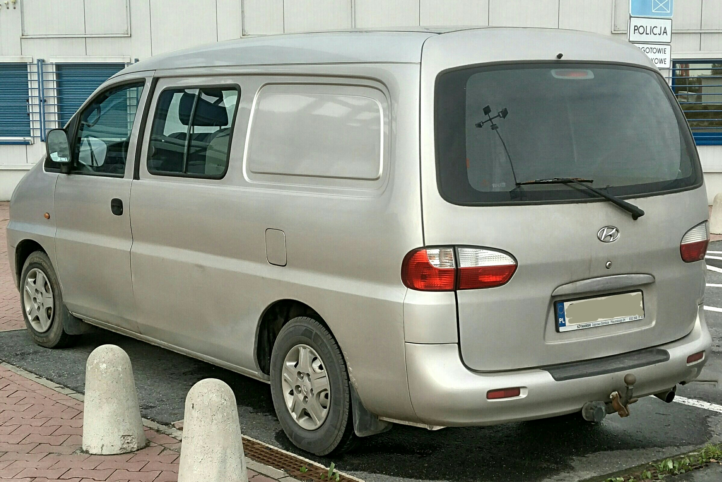 Hyundai H-1 (1-st generation)